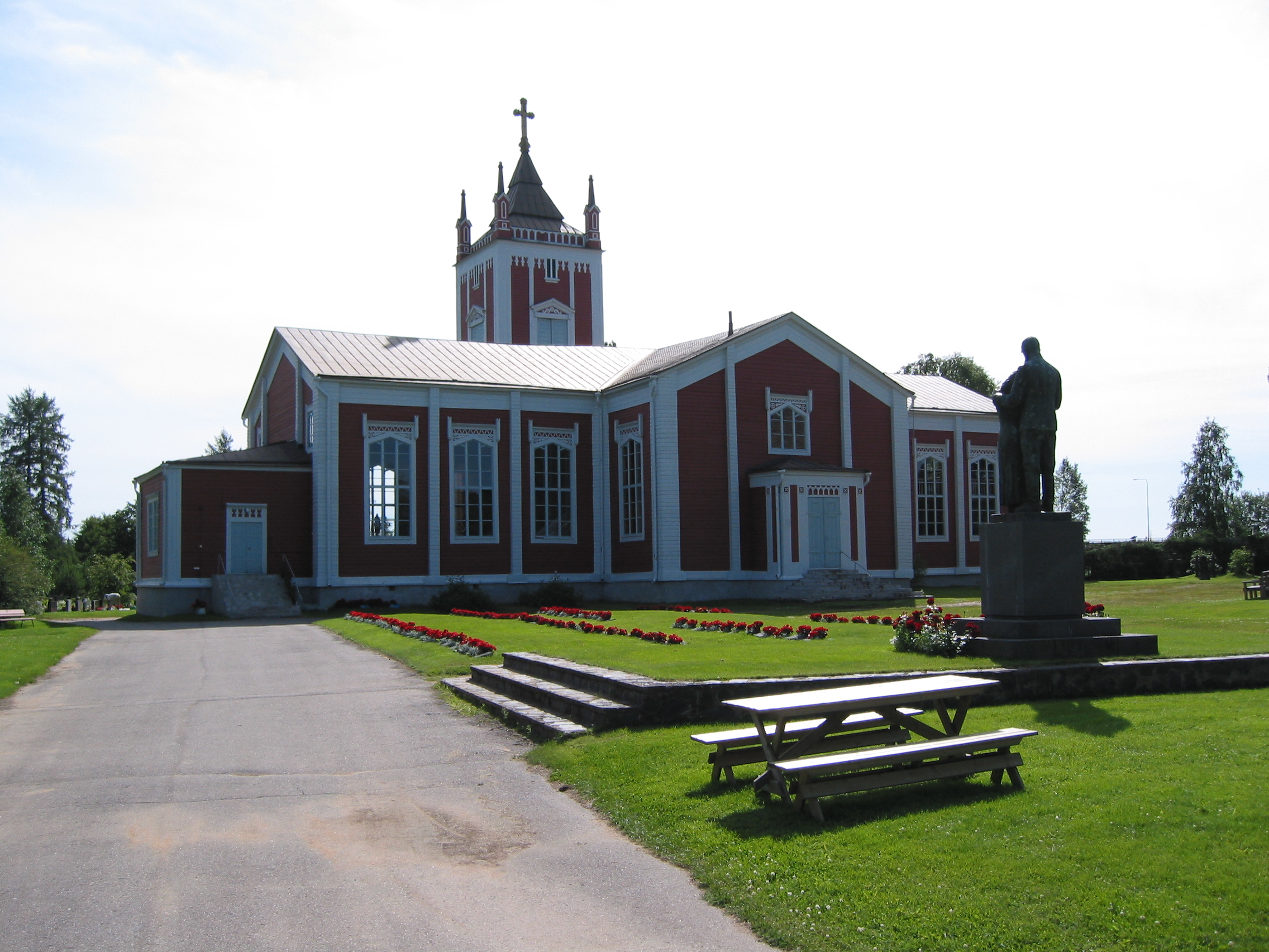 The newer Tervola Church, Finland.